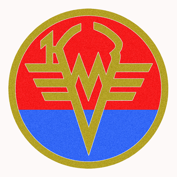 Emblem USSR Kyiv Motorcycle Plant